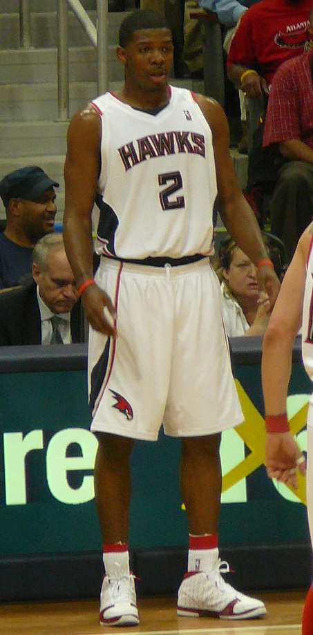 Joe Johnson of the Atlanta Hawks, during Game 4 of Atlanta's first round playoff series against the Boston Celtics